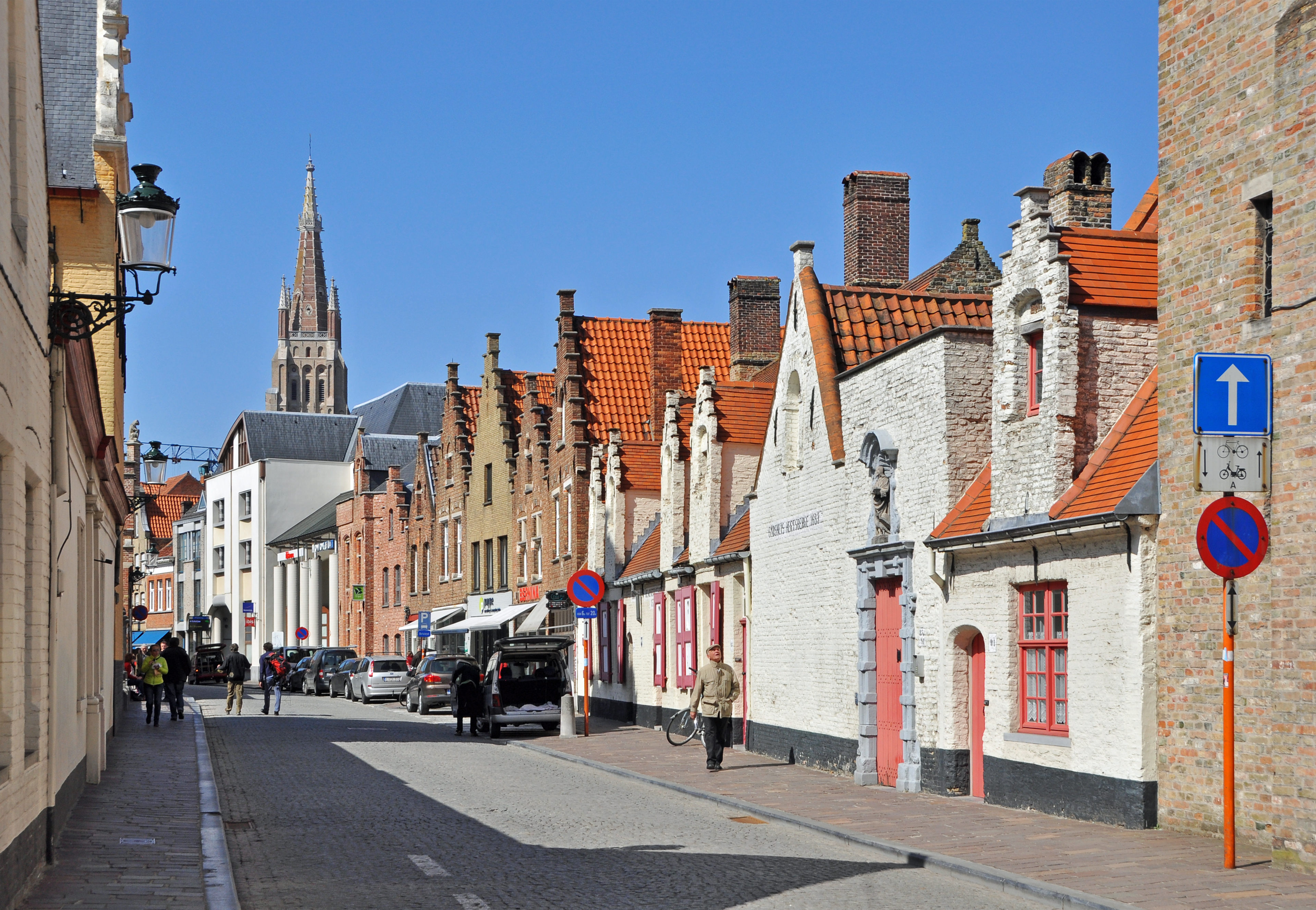 Bruges (Belgium): Katelijnestraat